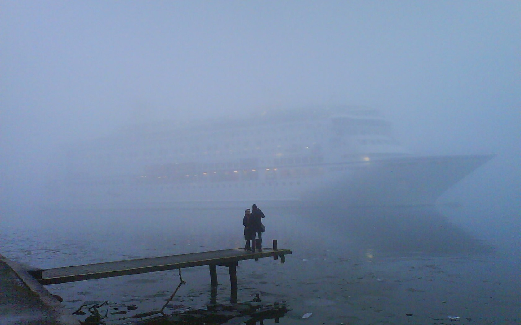 The ship Birka Paradise in fog utside Djurgården in Stockholm.